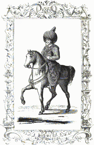 Kazasker. Engraving by Cesare Vecellio.